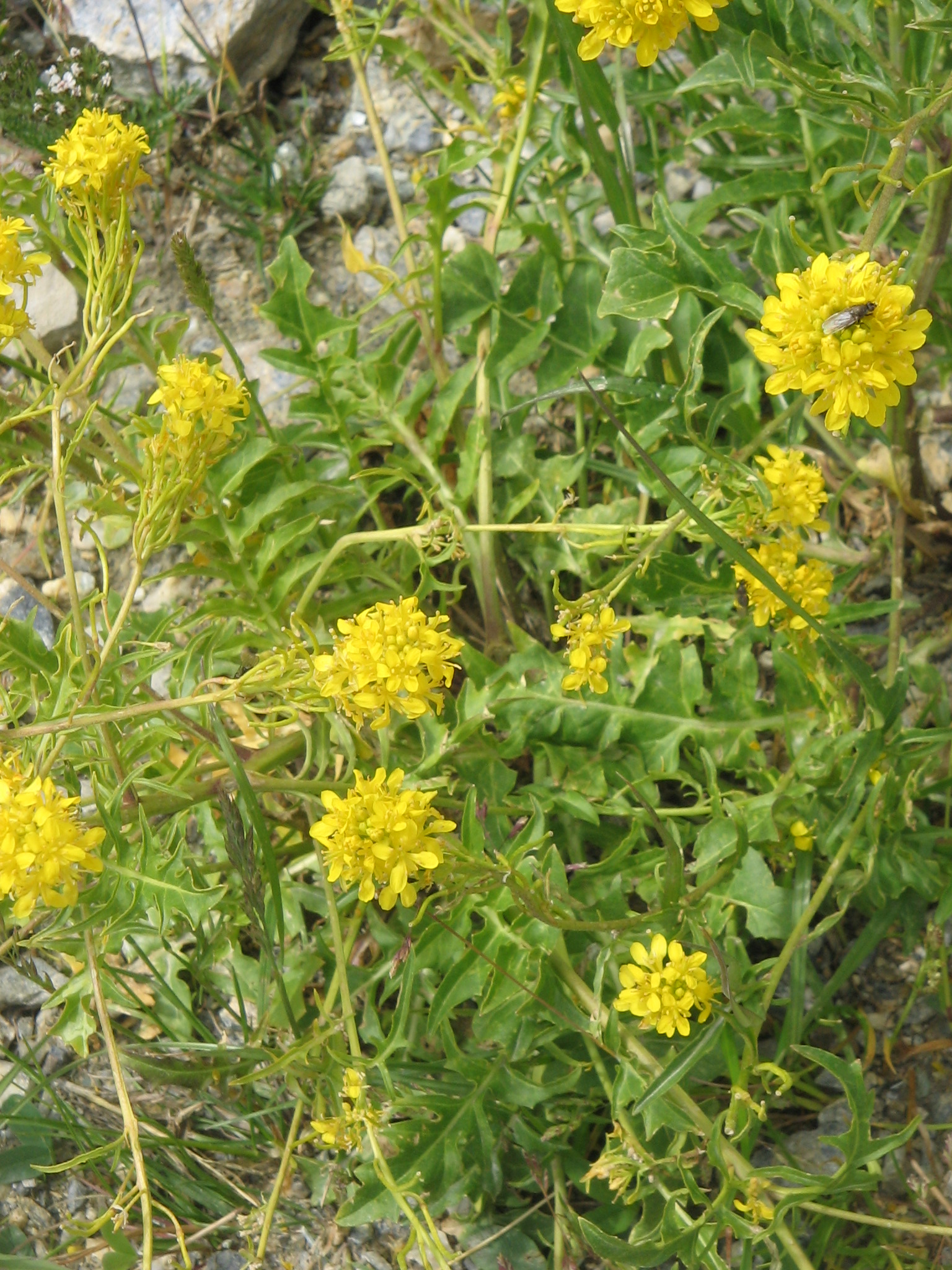 Sisymbrium austriacum